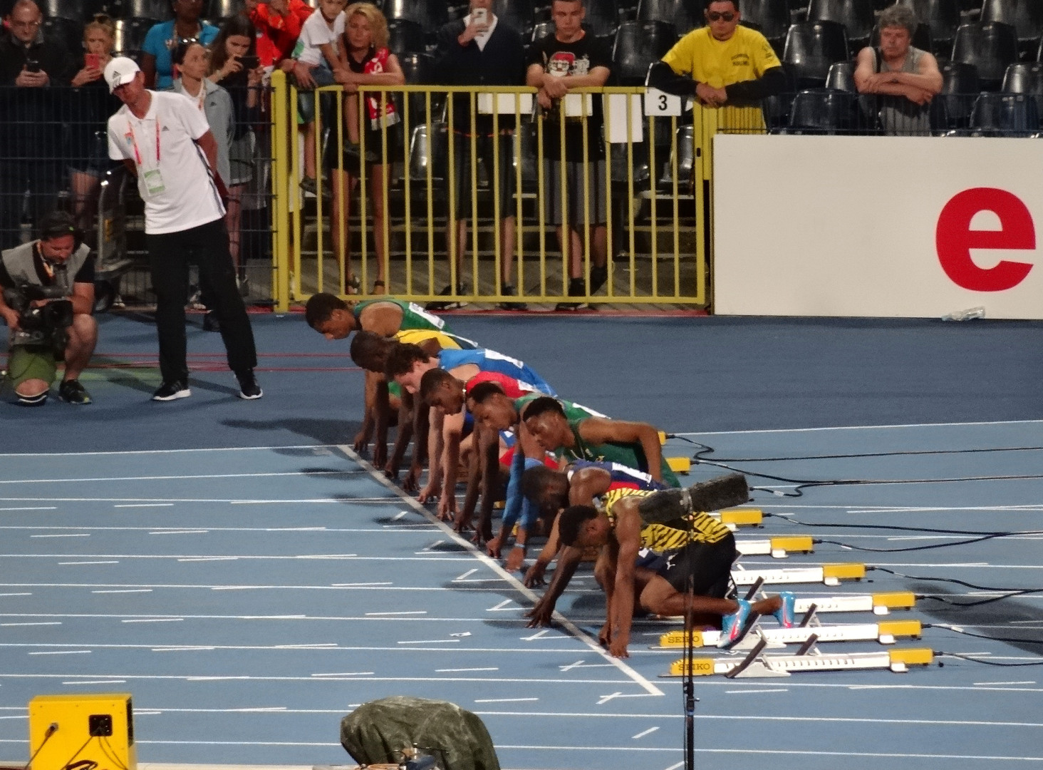 2016 IAAF World U20 Championships in Bydgoszcz, 100m men final